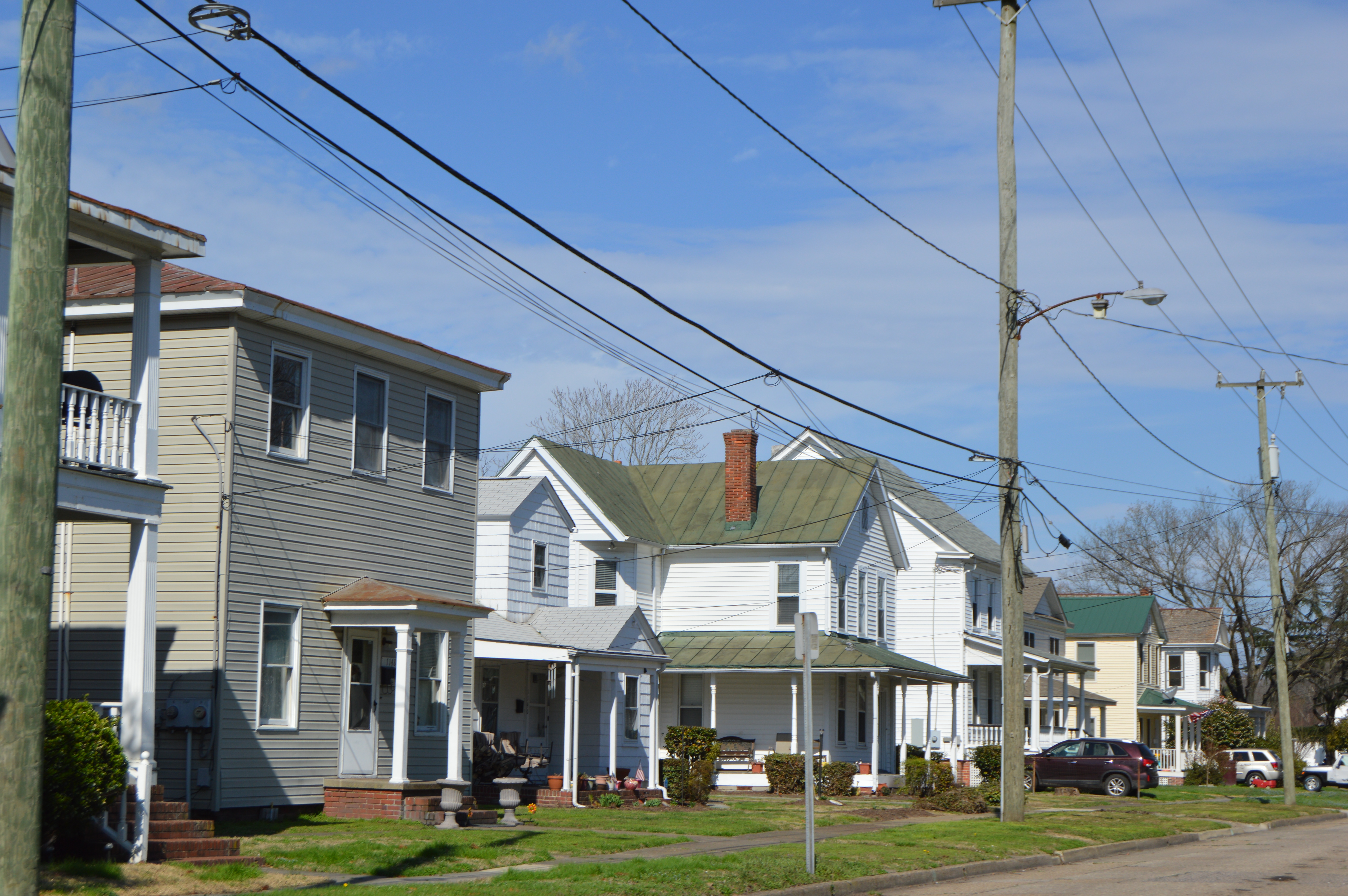 Houses on Stewart Street, seen looking north from Ohio Street, in Chesapeake, Virginia, United States. This block is part of the South Norfolk Historic District, a historic district that is listed on the National Register of Historic Places.